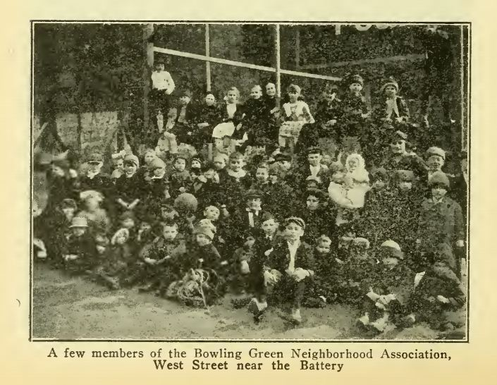 A few members of the Bowling Green Neighborhood Association, West Street near the Battery. Source: Brown, Henry Collins. Valentine's City of New York: A Guidebook. New York: The Chauncey Hold Company, 1920. p. 44.